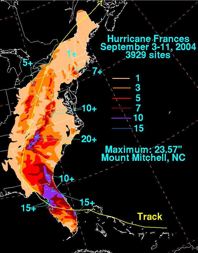 Rainfall produced by Hurricane Frances during September 2004.